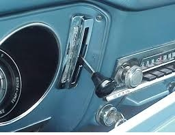 Powerglide control lever, typical of all 1965-69 Corvairs. This one is the "safety" lever used on 1967-69 models.